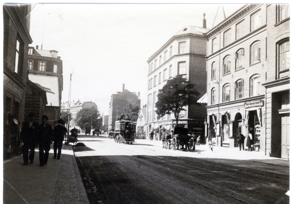 Smallegade, looking West from the intersection with Steen Blichers Vej, in Frederiksberg, Copenhagen, Denmark